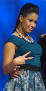 Patricia Kazadi